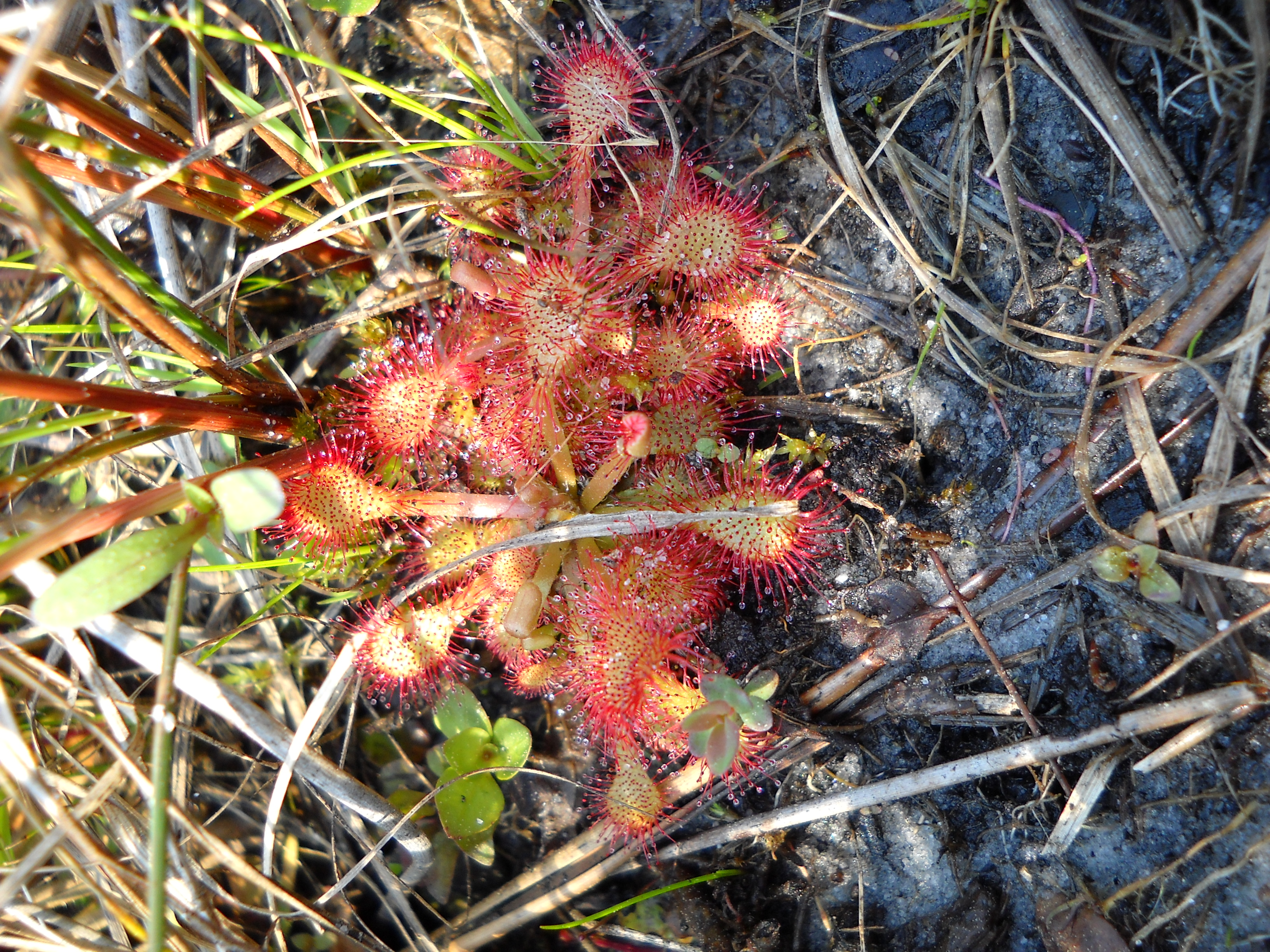 Drosera rotundifolia — Common sundew, or round-leaved sundew. Native carnivorous plant — in the Croatan National Forest of North Carolina.